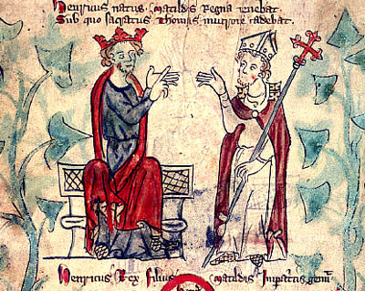 St. Thomas Becket faces King Henry II in a dispute; Henry II and Thomas Becket. This is taken from 'Peter of Langtoft, Chronicle of England' which was probably written and pictures added during the reign of Edward II (1307-1327). In 1162 King Henry II persuaded his Chancellor Thomas Becket, to become Archbishop of Canterbury, although Becket warned him that his chief loyalty would then be to the Church and not to the king. They disagreed about many matters. One of the most important was whether clergy who had broken the law could be tried in the King's courts or whether they could appear only before the Church courts. Eventually in 1170 Becket was murdered by three of the King's knights and Henry was blamed.